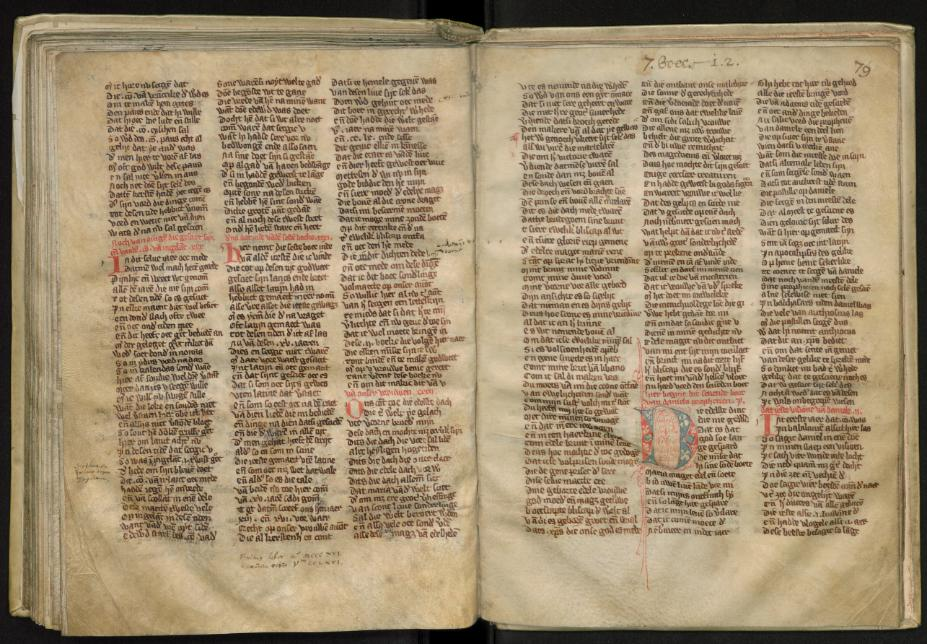 Spieghel Historiael by Lodewijk van Velthem. Manuscript Leiden University Library (The Netherlands)